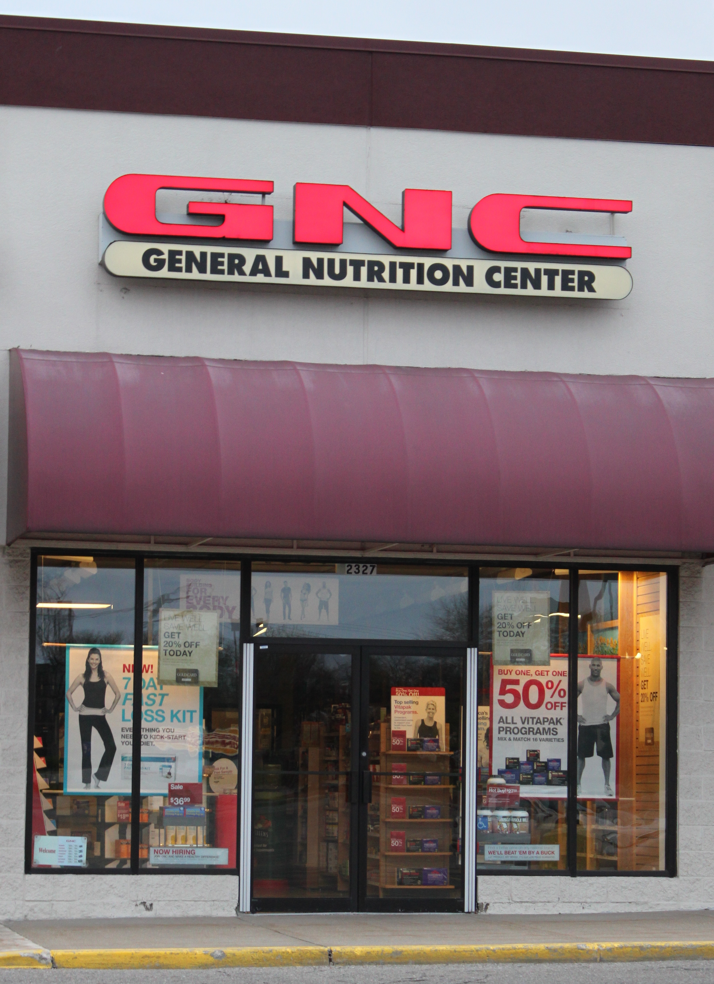 General Nutrition store, Ypsilanti Twp., MI